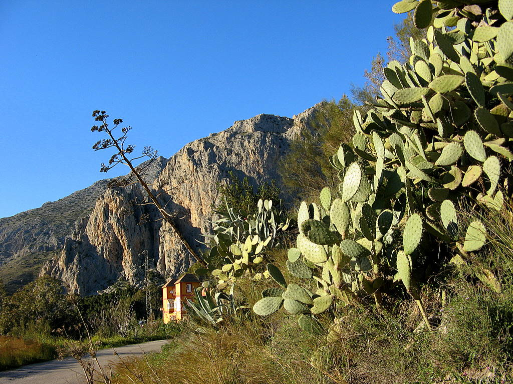 El Chorro